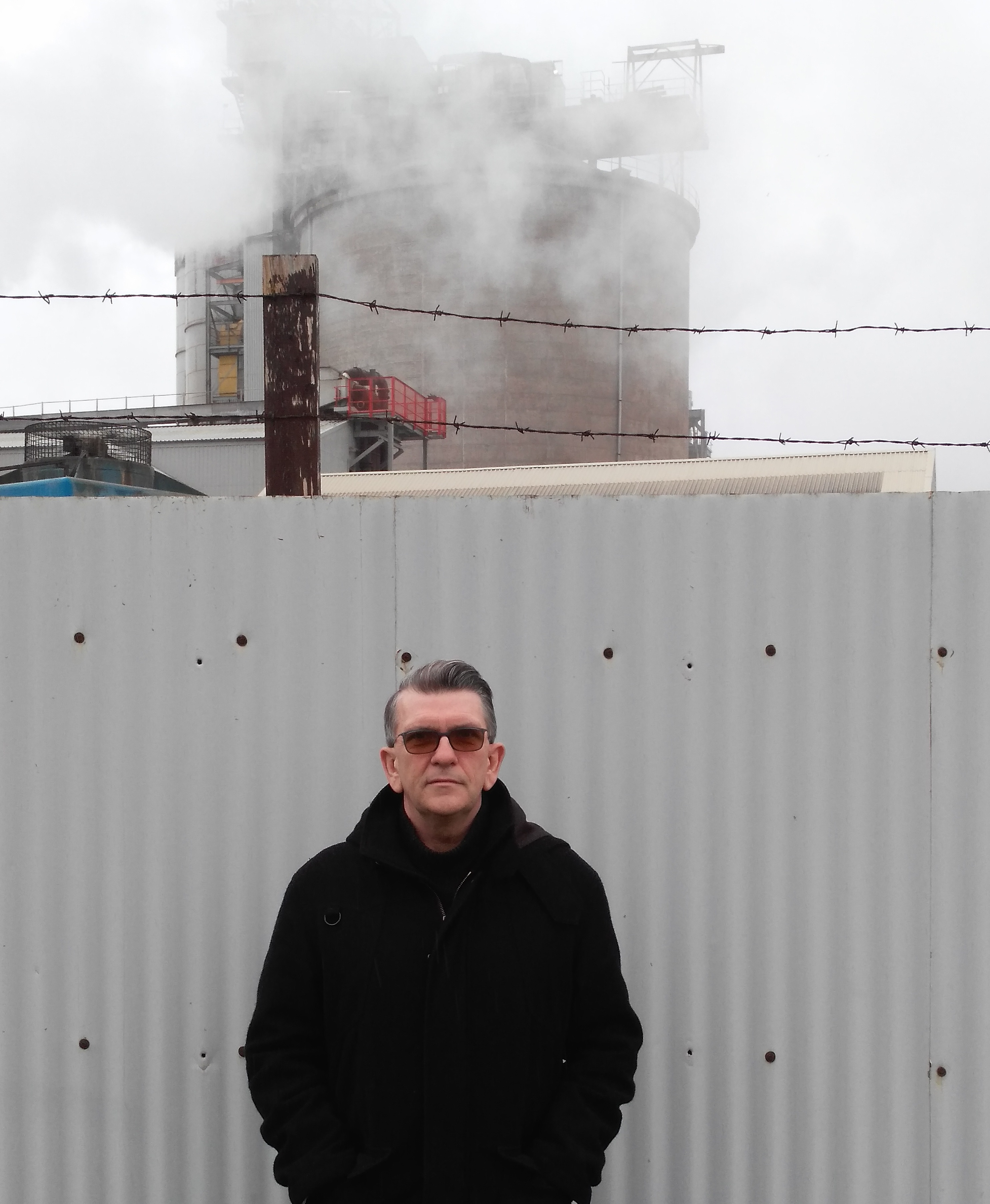 Mike Joyce - Drummer from Manchester, England stands for a photo with an industrial plant in the background.